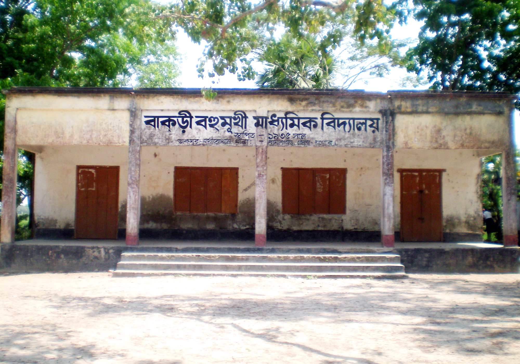 scinece building of bakri high school